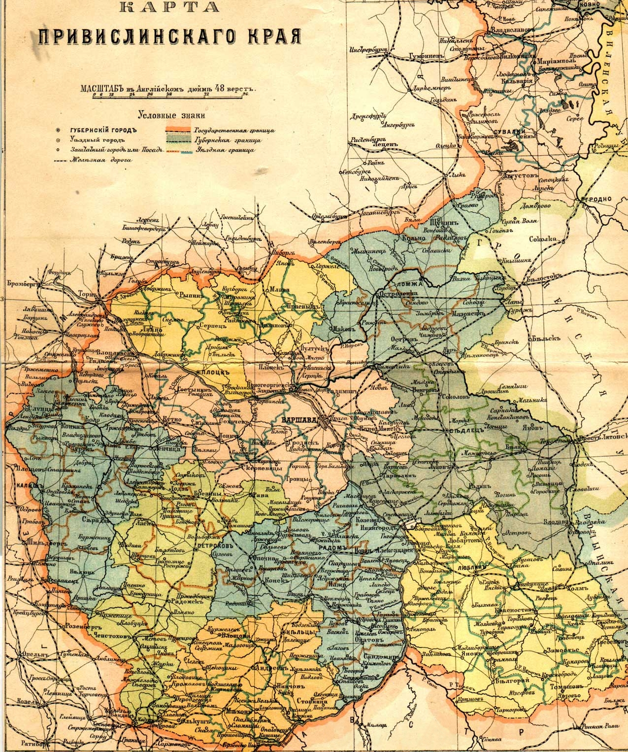 Russian map of Vistula land (Privislinsky Krai, former Congress Poland), approx. second half of the 19th century. The scale of the map is 48 versts per English inch. Left column of the legend: Governorate-level town Uyezd (district)-level town Non-uyezd towns (those which had town status but did not serve as uyezd seats)/posad Railroad Right column: State border Governorate border Uyezd border